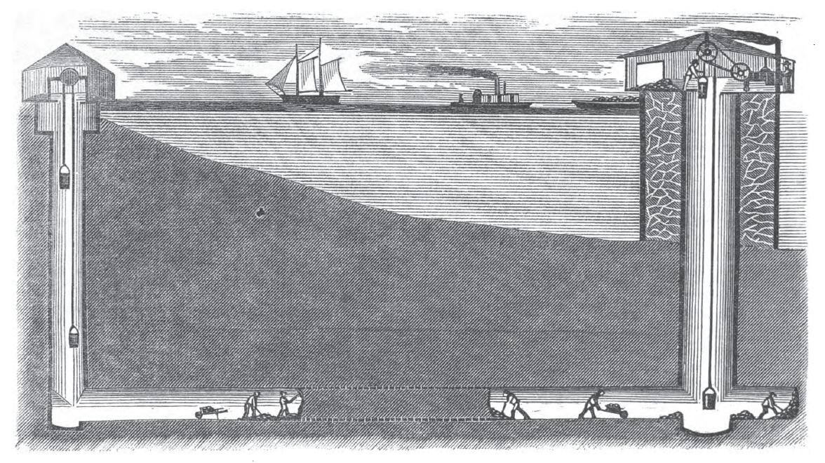 From the title page of "The Great Chicago Lake Tunnel" book, this diagram depicts a cross section of the in-progress construction of the lake tunnel (to connect a water intake crib to an onshore pumping station) in Chicago, IL, U.S.A. built in the 1860's to supply clean drinking water to the growing city.